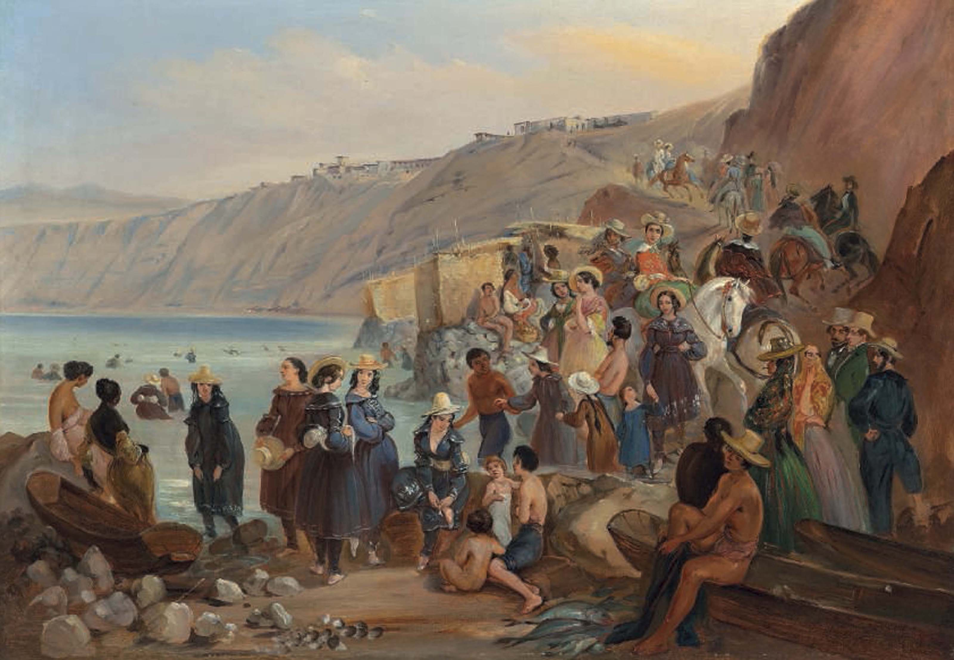 Bathers on the Chorillos beach, Miraflores, Lima titled 'Bathers on the coast of Peru' on the frame oil on canvas 19 7/8 x 28 1/8in. (50.6 x 71.4cm.)